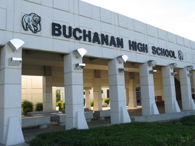 bUCHANAN